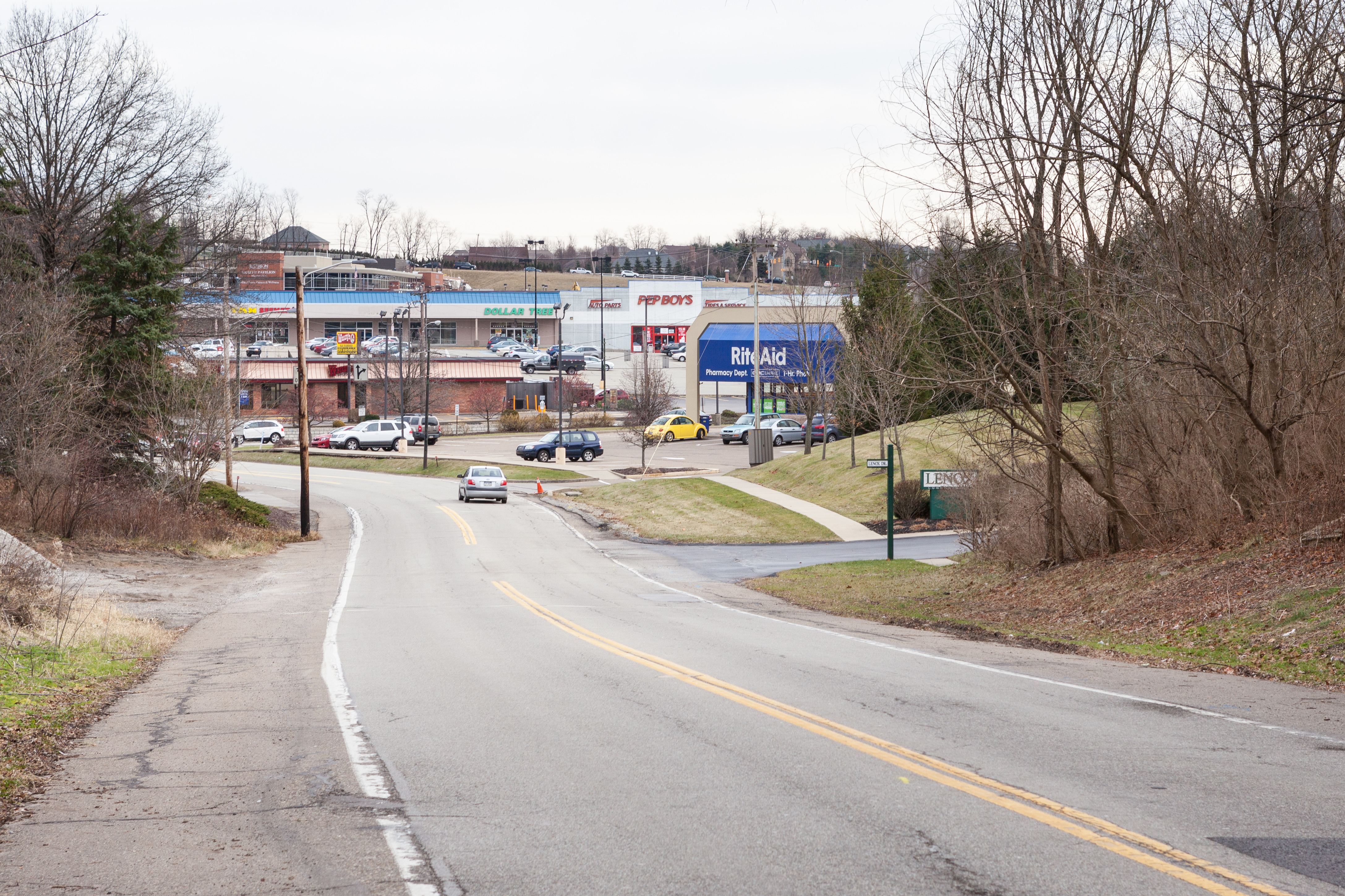 An east bound car is near the location of the first armored car robbery in the U.S, in Bethel Park, Pennsylvania. The Flat Head gang robbed the payroll for a local mine in March 11, 1927. Looking east on Brightwood Road near its intersection with route 88.